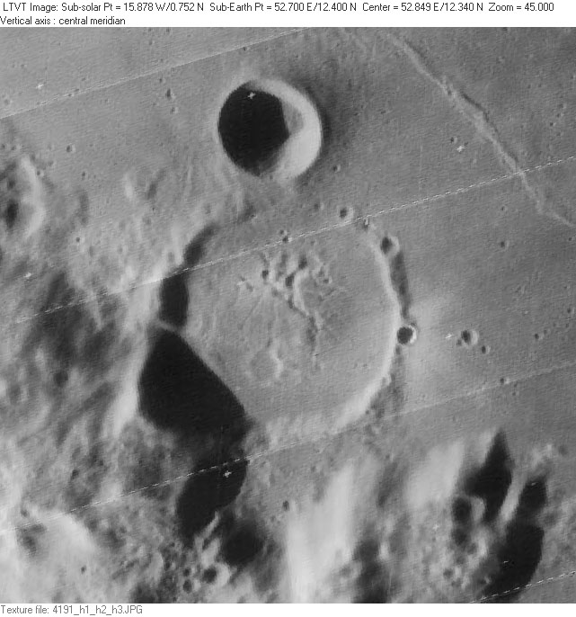 LO-IV-191H Lick is the large ghostly ring with smaller Greaves above it. Ruined 23-km Lick A is partially visible just below Lick. The wrinkle-ridge in the upper right is not part of any named system.